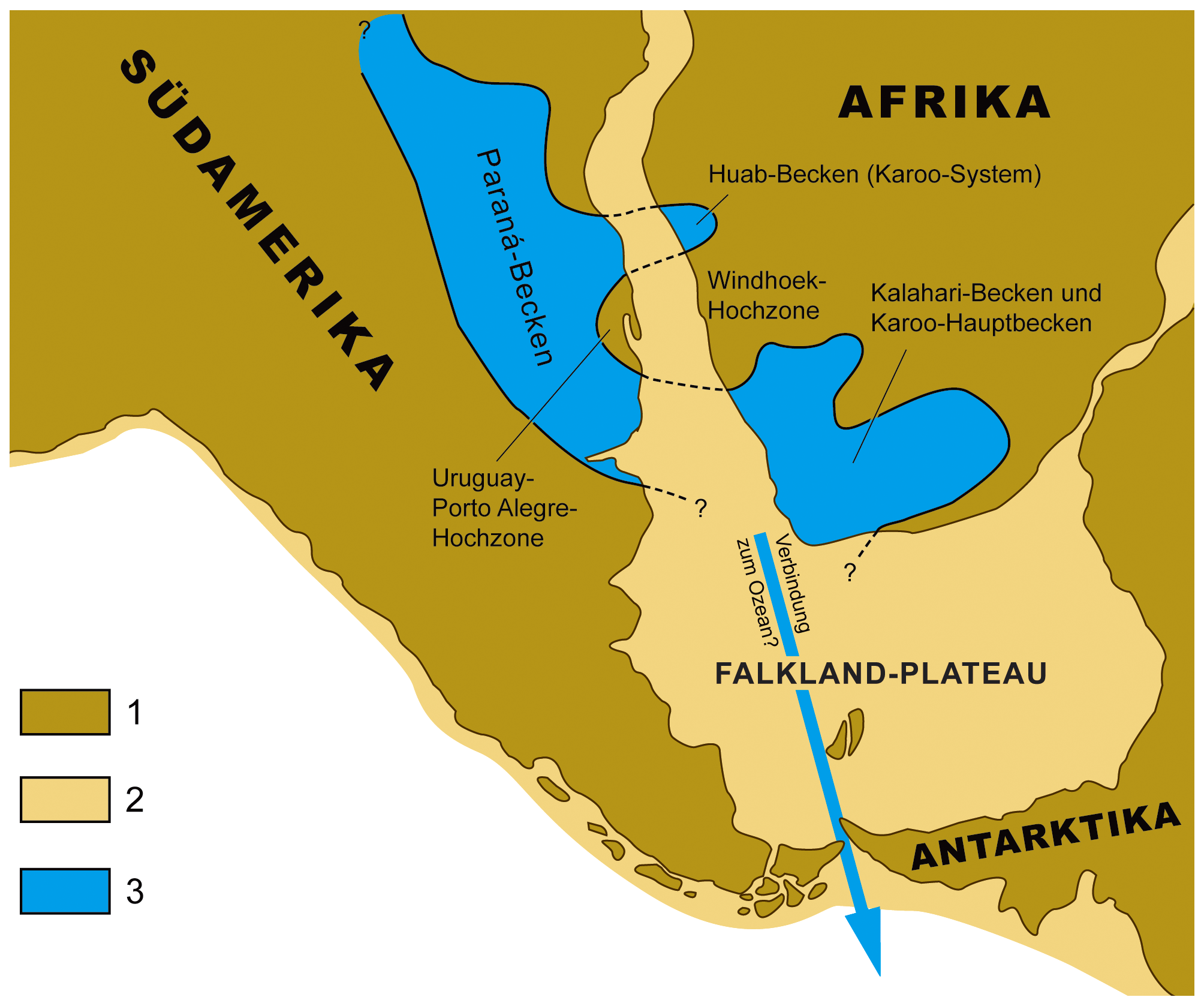 Paleogeographic map showing distribution of sediments of Lower Permian Gondwanan epicontinetal sea or lake ("Mesosaurus Sea") in the Paraná and Karoo Basins of South America and southern Africa. Legend: 1 = emerged surface of present day continents; 2 = submerged areas of present day continents (present day shelf areas); 3 = distribution of mesosaur bearing strata (Whitehill, Irati, and Mangrullo Formations) in outcrop and subsurface of present day land masses. Modified from Oelofsen & Araújo (1987).[1]